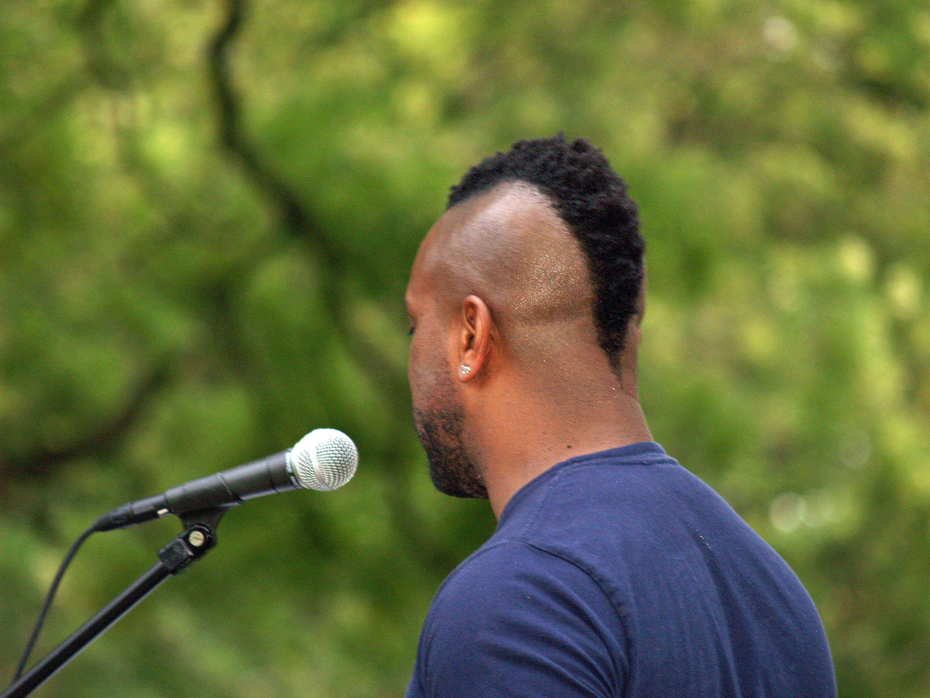 Roger Bonair-Agard by David Shankbone